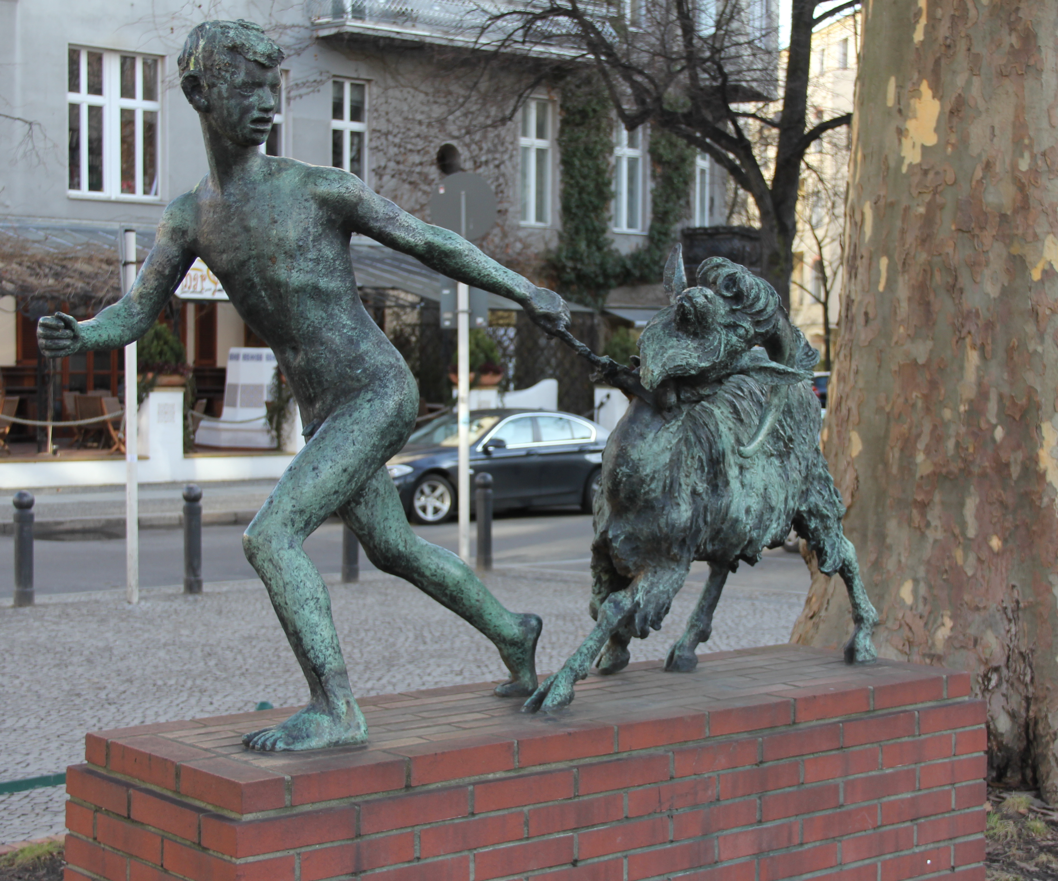 Memorial statue, "Knabe mit Ziege" by August Kraus, 1930, Savignyplatz, Berlin-Charlottenburg, Germany